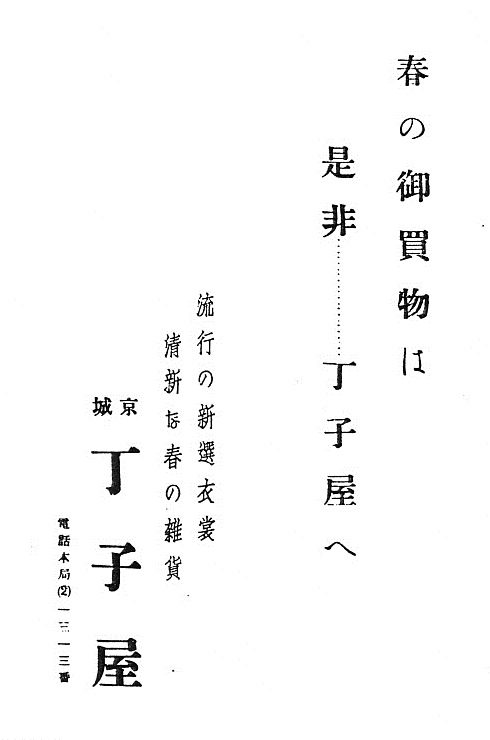 Chojiya Department Store advertisement